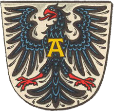 Coat of arms of Altenstadt (Hessen), Germany